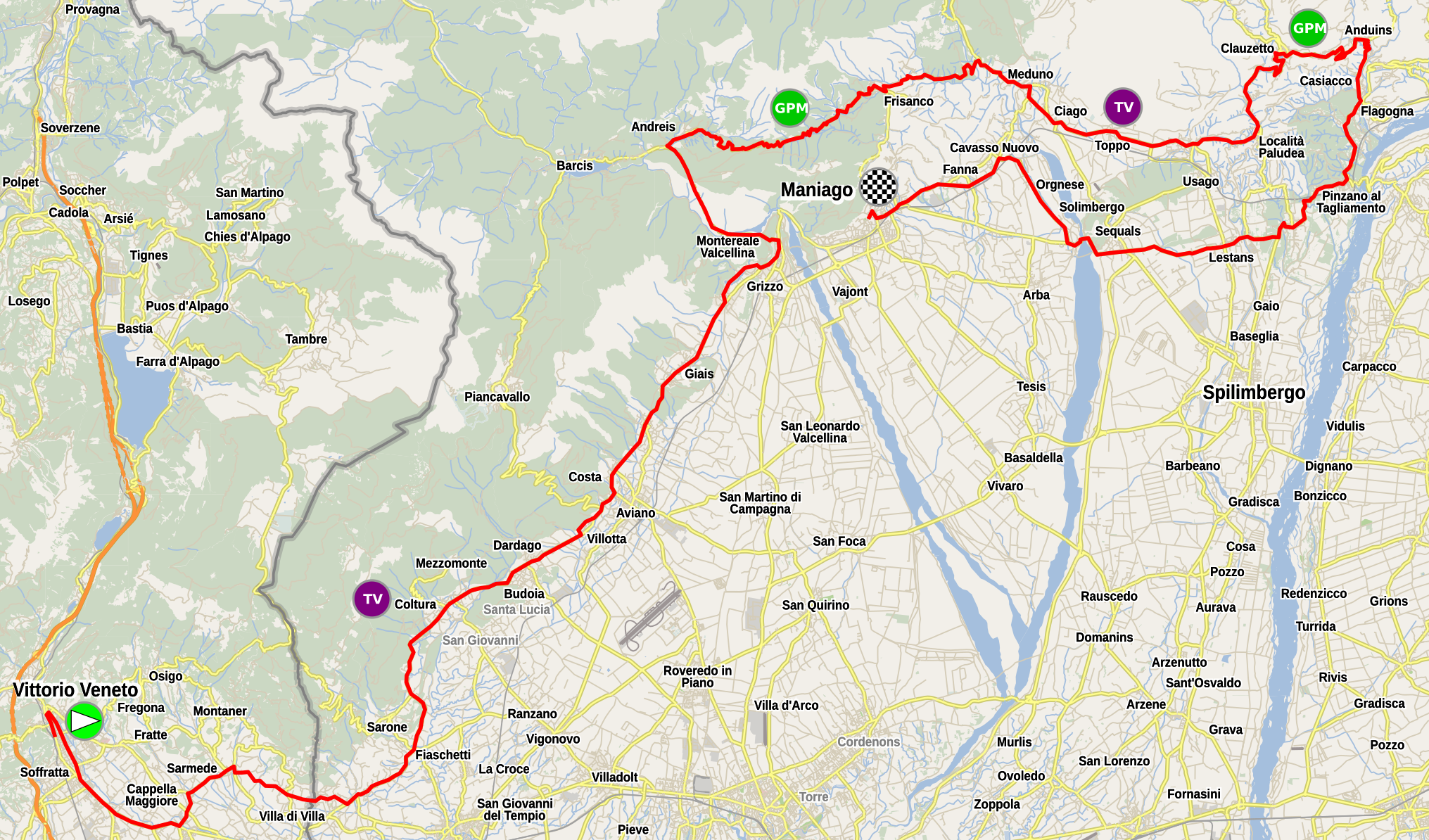 Map of stage 8 from Giro donne 2019